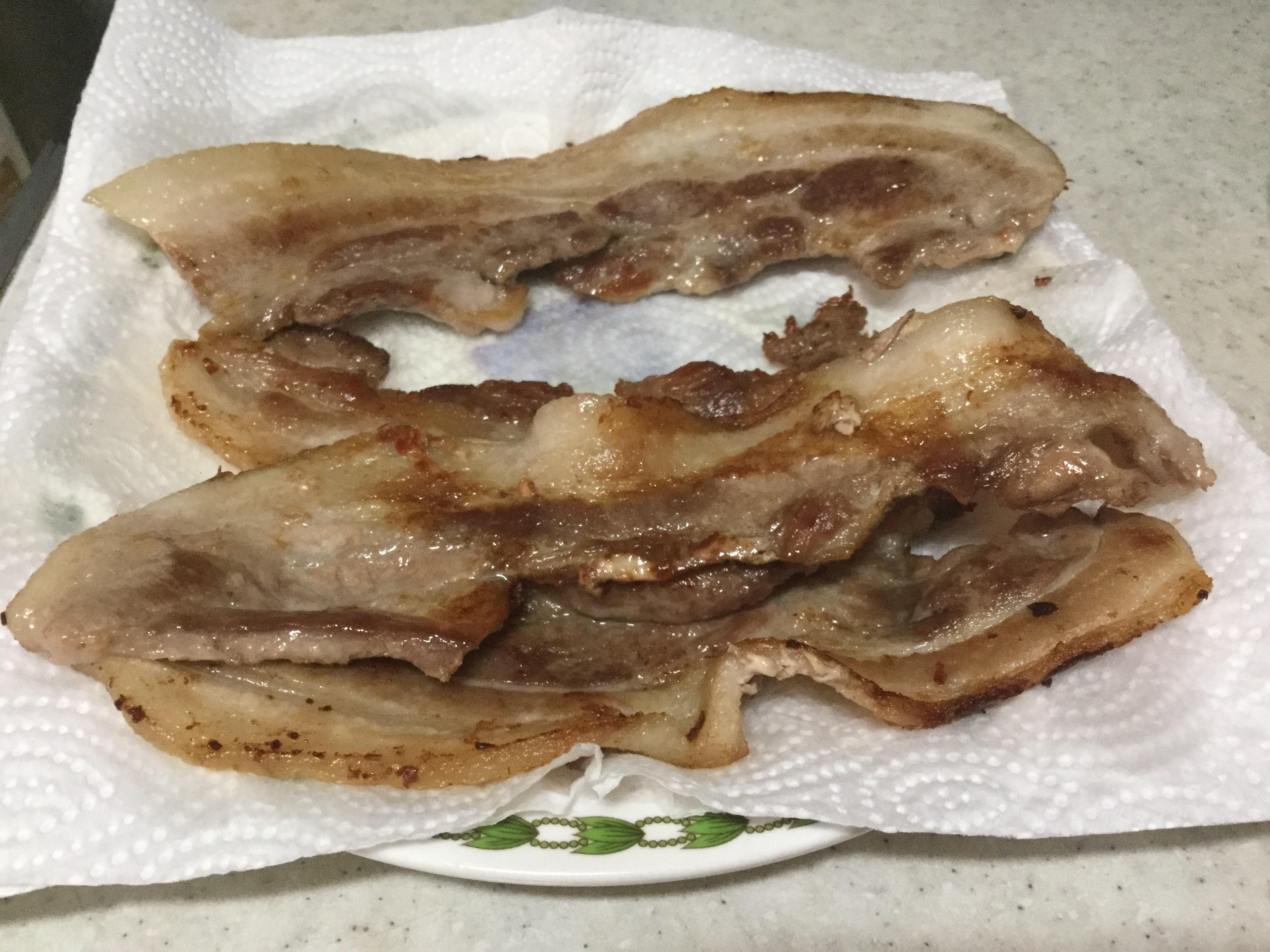 samgyeopsal gui